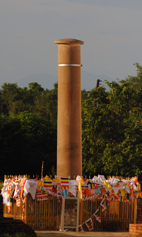 Ashok Pillar at Lumbini. The Ashokan Pillar in Lumbini stands at 6 meters and is made from pink sandstone. The pillar was lost until 1896 when a team of Nepalese archeologists rediscovered it.It is one of many stone pillars built by the Indian Emperor Ashoka during his reign in the 3rd century BC. Today only 19 pillars remain that have inscriptions most of which are found in India. The one located in Lumbini, Nepal is of particular note as it is the oldest inscription found in Nepal.नेपाली: अशोक स्तम्भ लुम्बिनीमा रहेको प्रसिद्ध स्मारक हो । यो स्तम्भको निर्माण भारतीय सम्राट अशोकाके तेश्रो शताब्दीमा गरेका हुन् ।